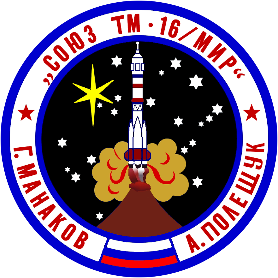 The official crew patch for the Russian Soyuz TM-16 mission, which delivered the EO-13 to the space station Mir.